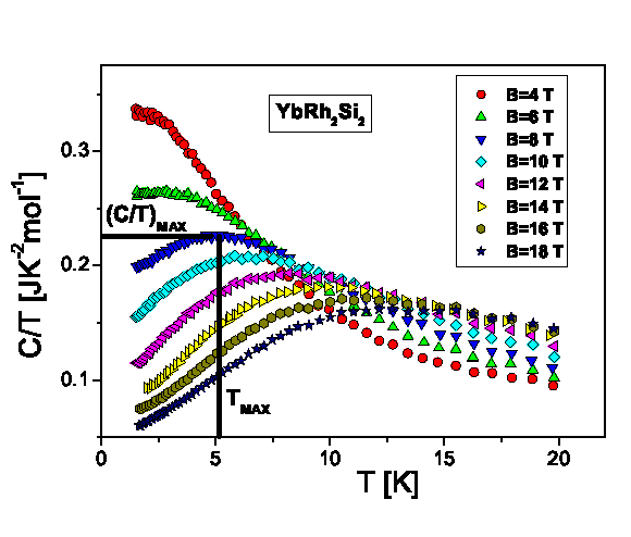 I have it constructed myself.